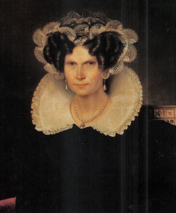 Portrait of Wilhelmine of Prussia (1774–1837)